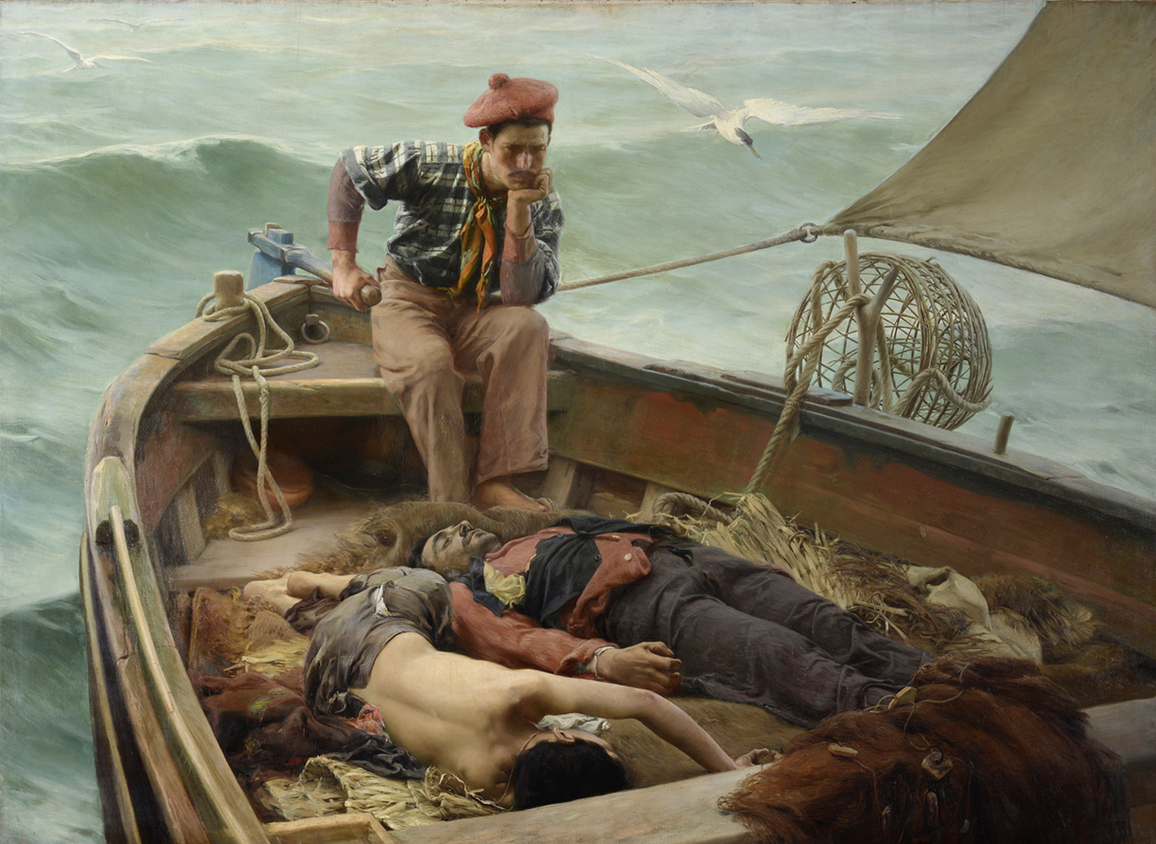 Náufragos. Óleo sobre lienzo, 182 x 254 cm. Joaquín Bárbara y Balza, 1896.